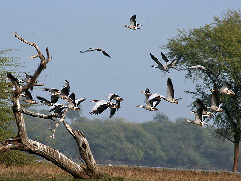 Bar-headed Goose (Anser indicus) in Bharatpur, Rajasthan, India.